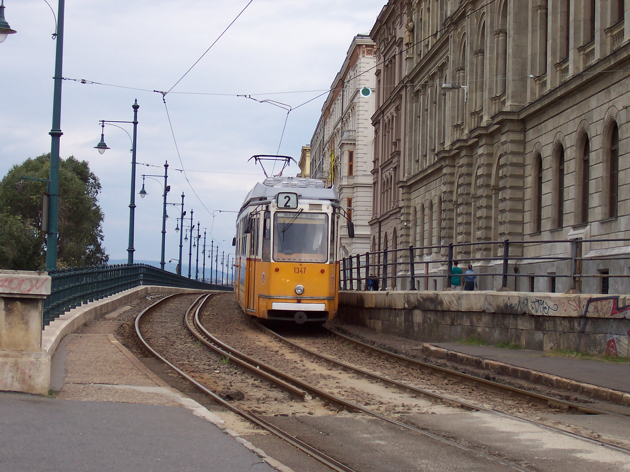 Tram in Szécheny Rakpart